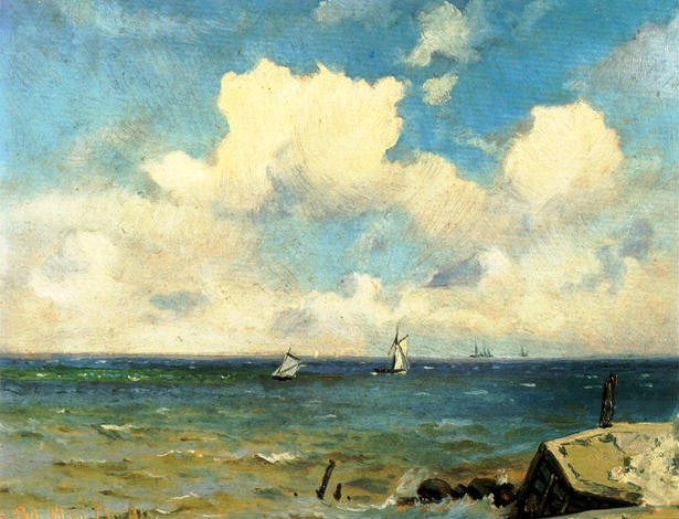 Seascape